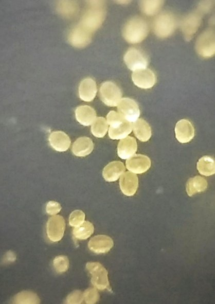 Pollens of Peltophorum pterocarpum